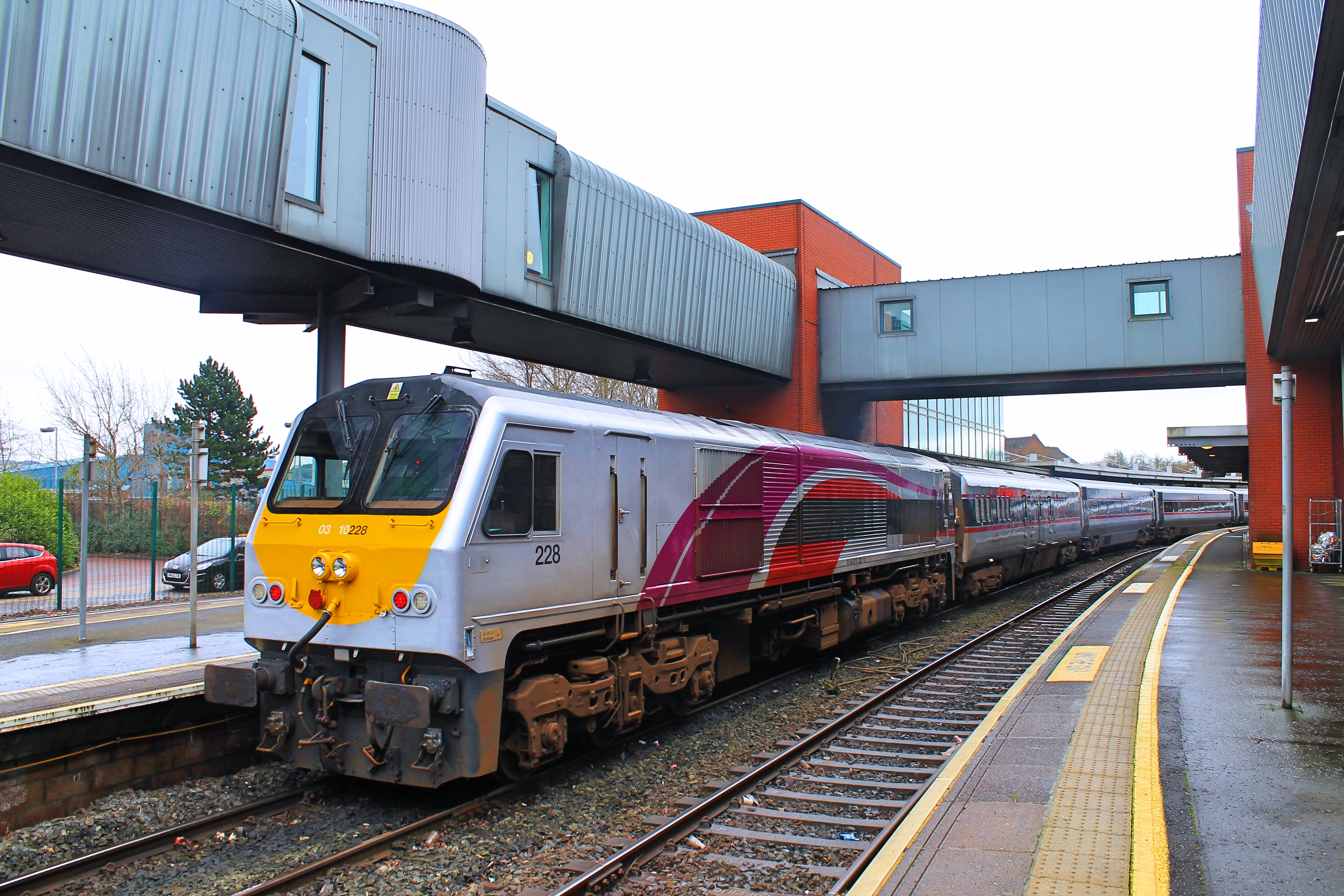 201 Class locomotive No. 228 at Central in Enterprise livery.